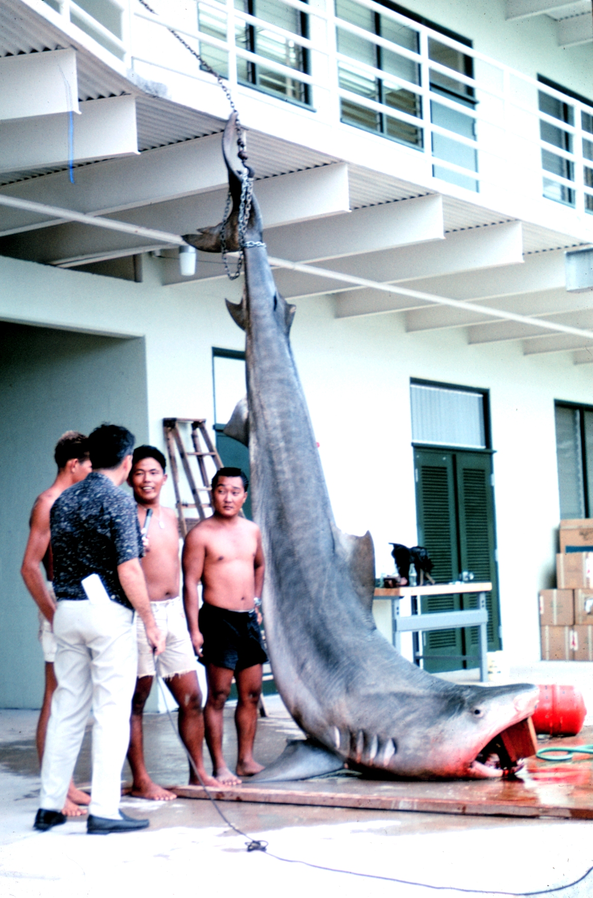 14-foot, 1200 pound tiger shark caught in Kaneohe Bay, Oahu, Hawaii where they are hunted for only a small part of their bodies.